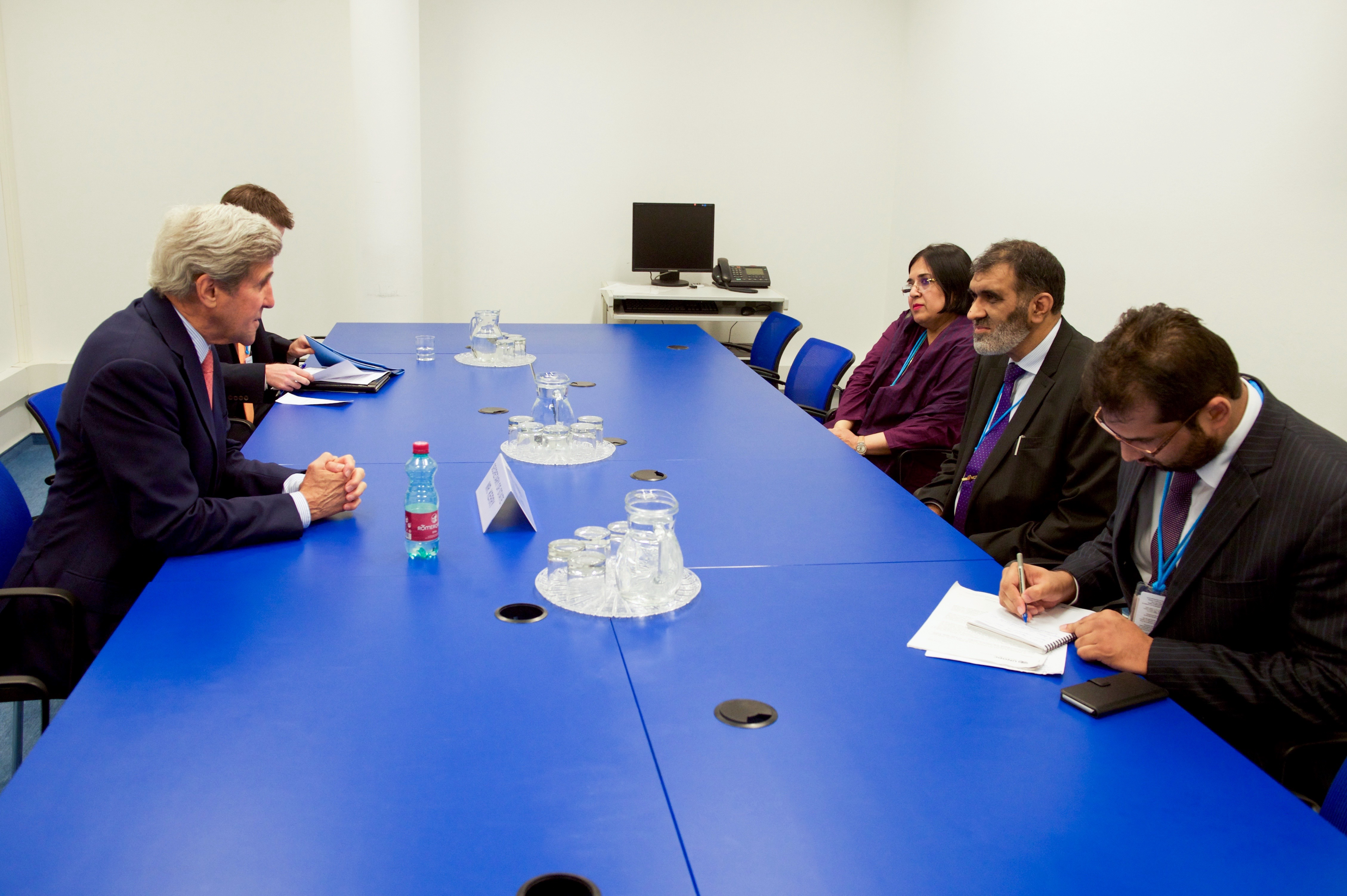 U.S. Secretary of State John Kerry meets with government officials from Pakistan on July 22, 2016, at the Vienna International Center in Vienna, Austria, amid negotiations to amend the Montreal Protocol climate change agreement. [State Department Photo/ Public Domain]